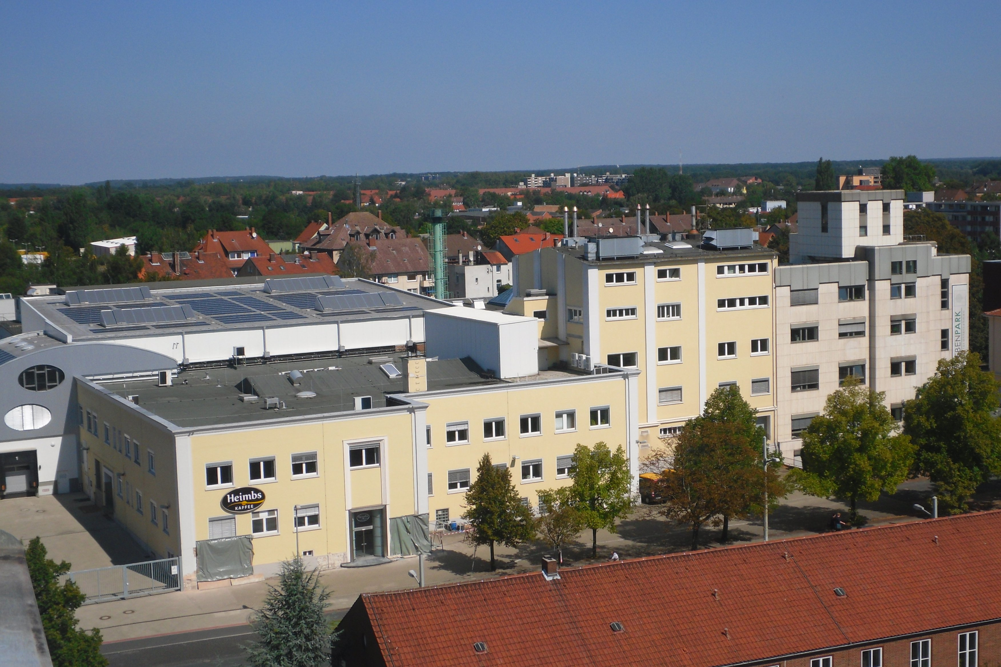 Heimbs Kaffee factory in Braunschweig at the Rebenring